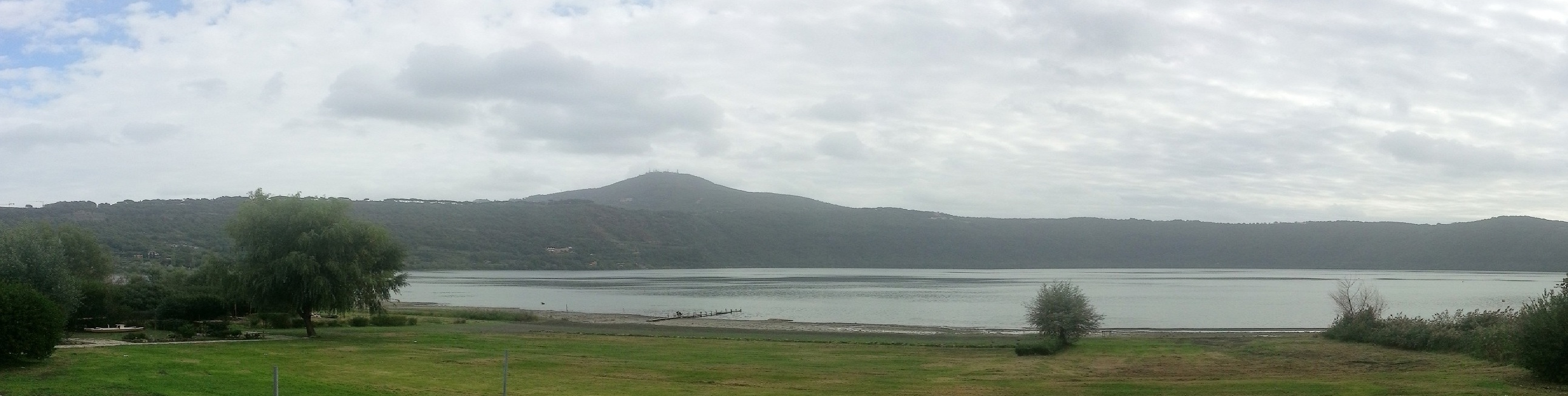 Lake albano by Paris